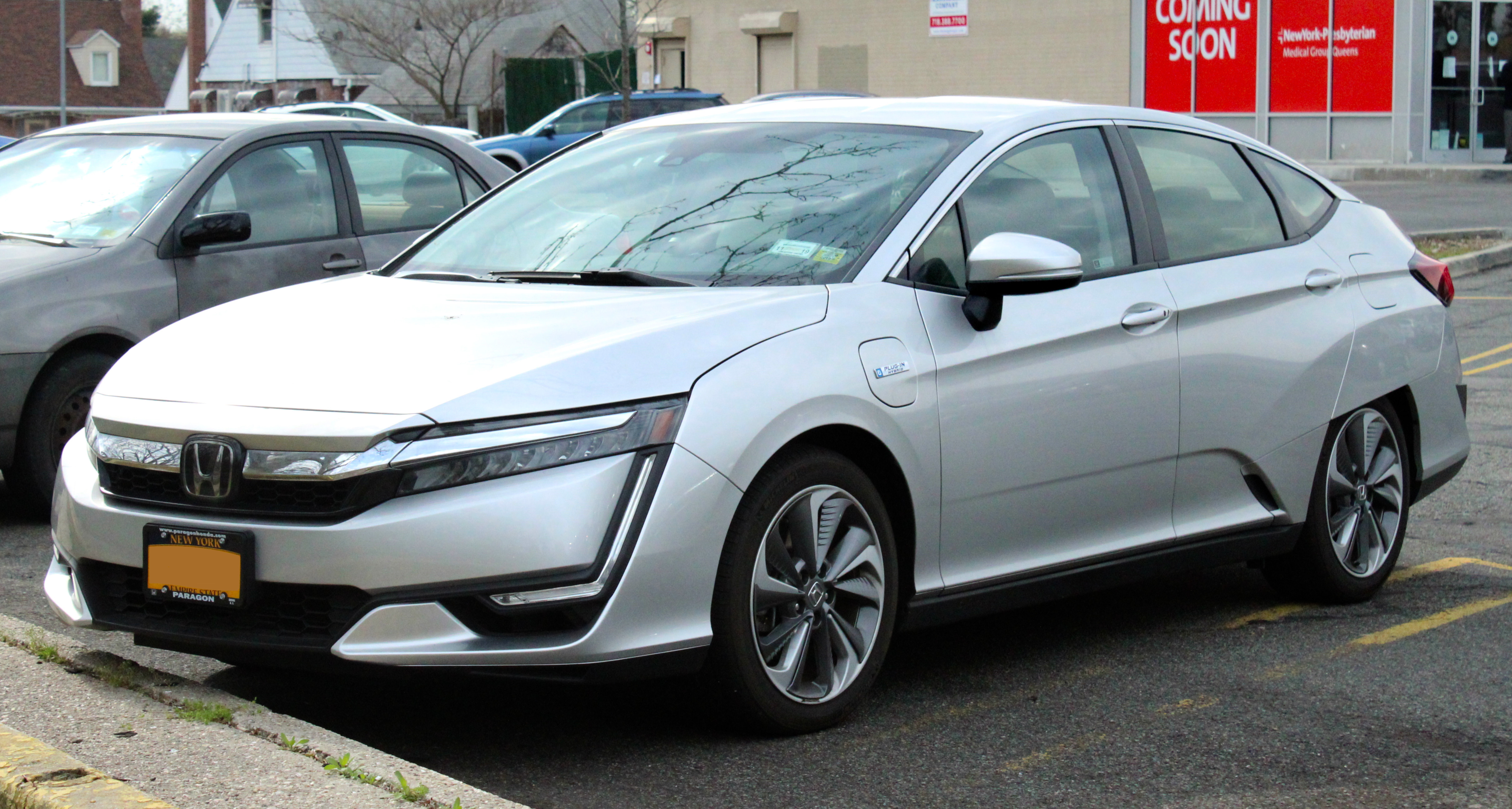 A 2018 Honda Clarity Touring Plug-in Hybrid photographed in Queens, New York, USA